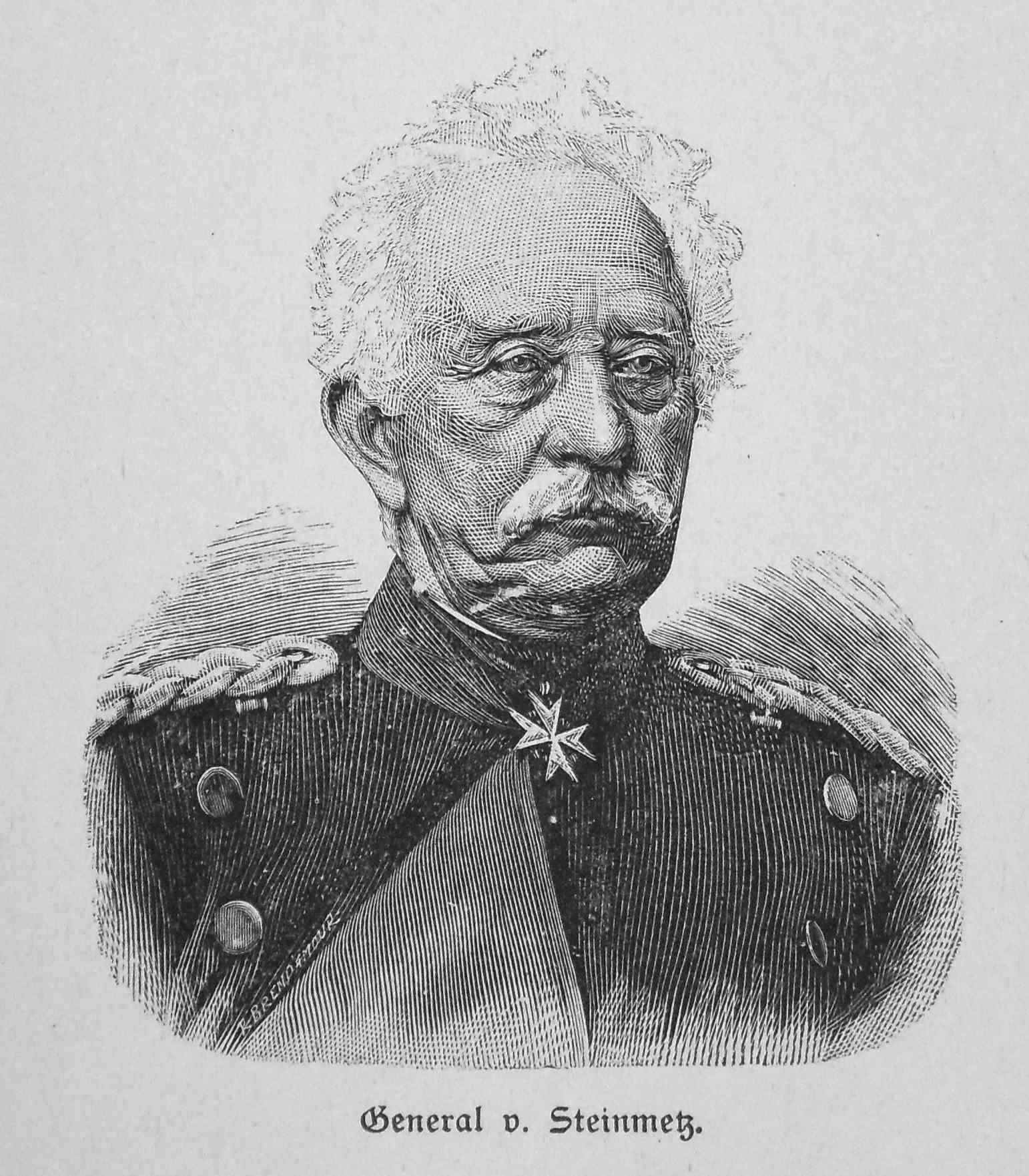 general von Steinmetz